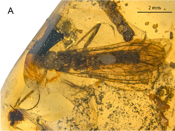 Petroperla mickjaggeri, holotype SMNS BU-79, photographs. (A) Dorsal view.